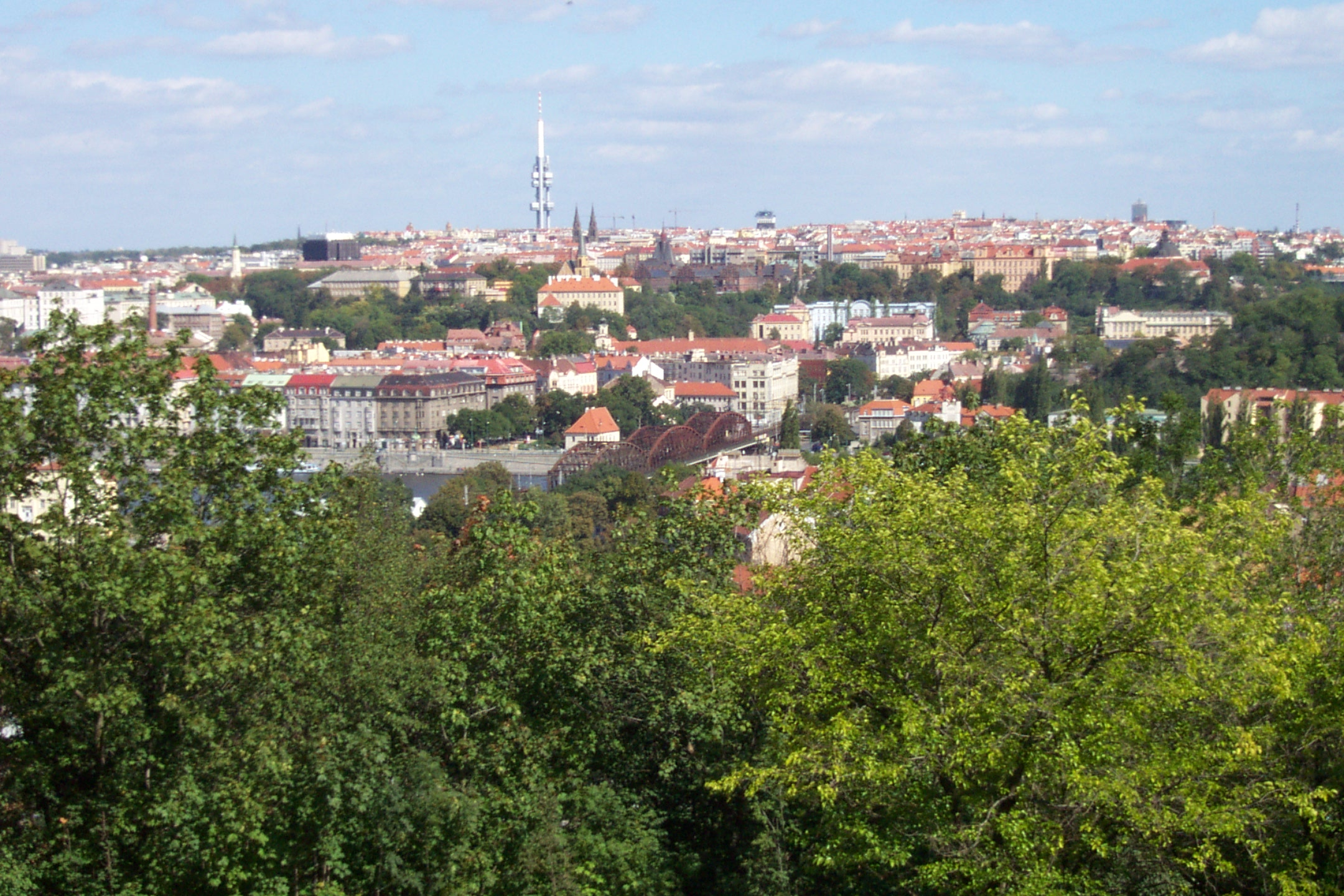 Lookout from Paví vrch hill in Prague-Smíchov, CZ